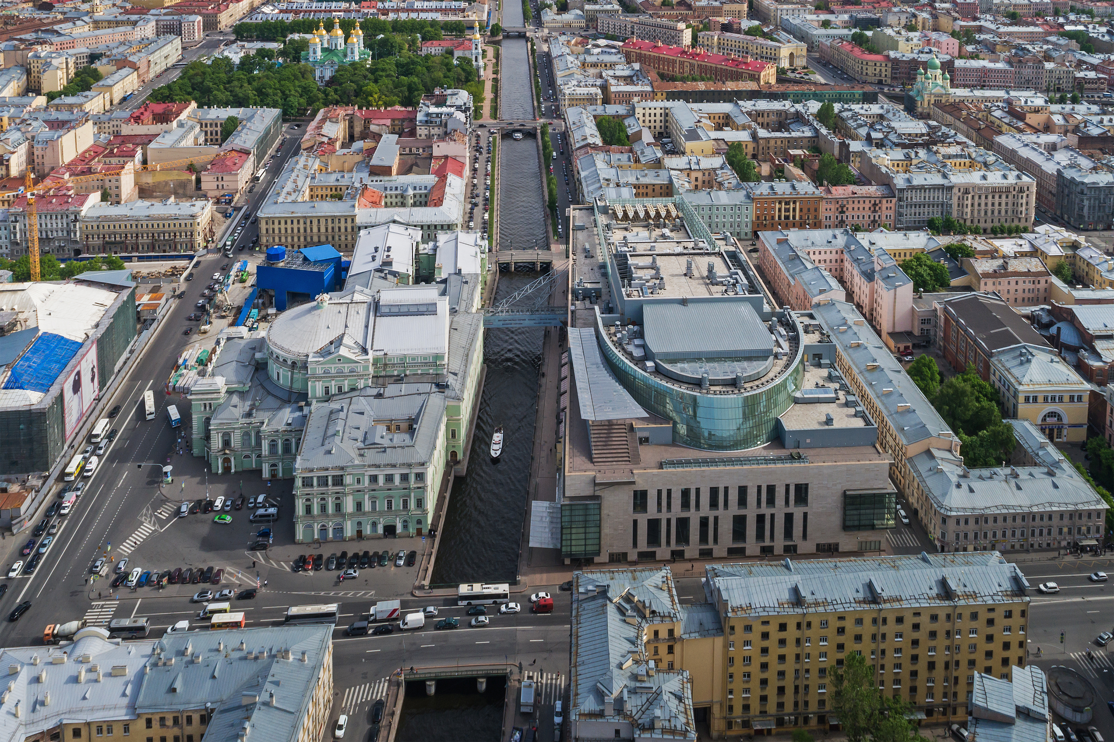 Aerial photo of Mariinsky Theatre (old and new stage) in Saint Petersburg (Russia).